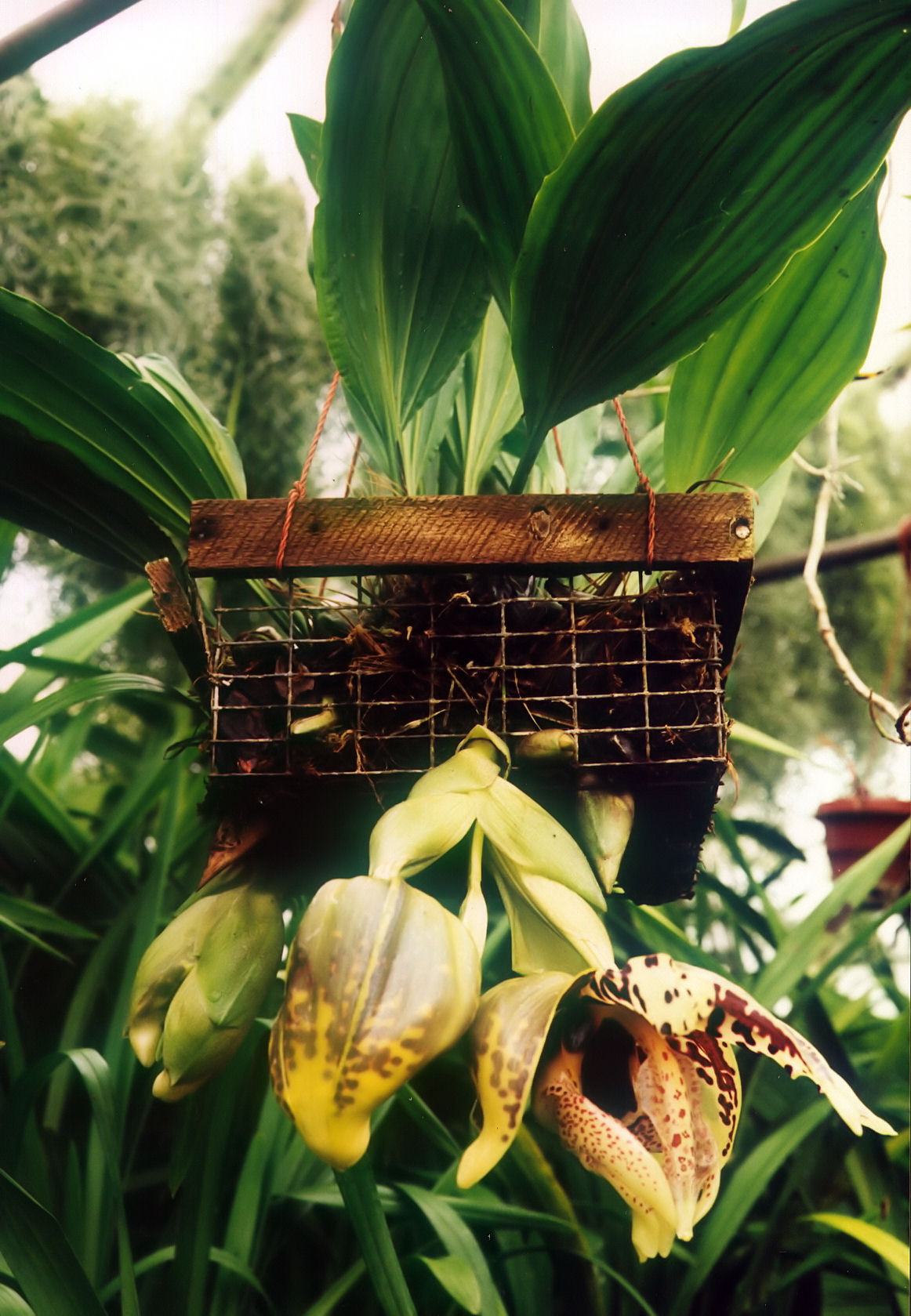 Stanhopea tigrina